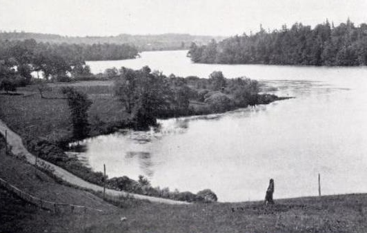 Partial view of Findley Lake near Mina, Chautauqua County, New York, circa 1904. (Public domain source: "The Centennial History of Chautauqua County, NY Chautauqua History Co., 1904.)